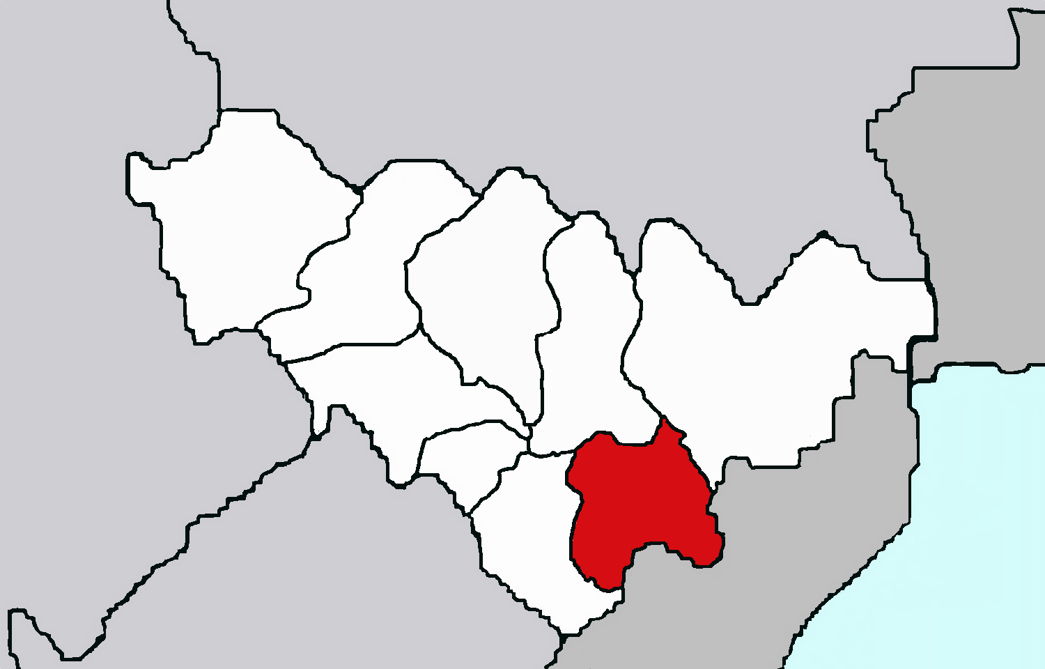 Maps of Jilin Province , China